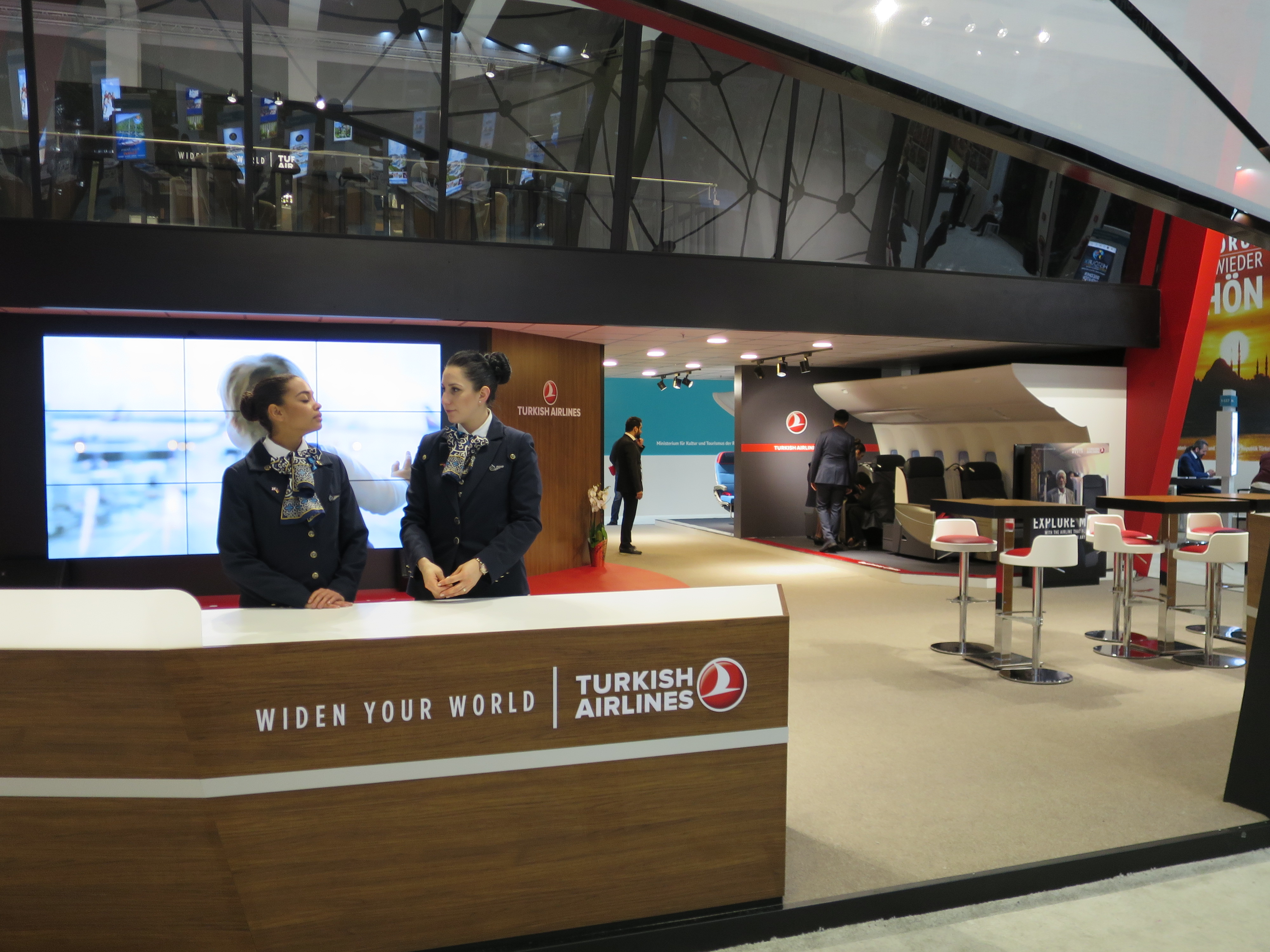 Turkish Airlines ITB 2017.